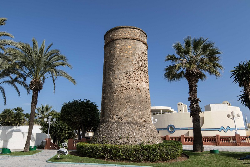 Torre Bermeja. Torre vigía de época nazarí